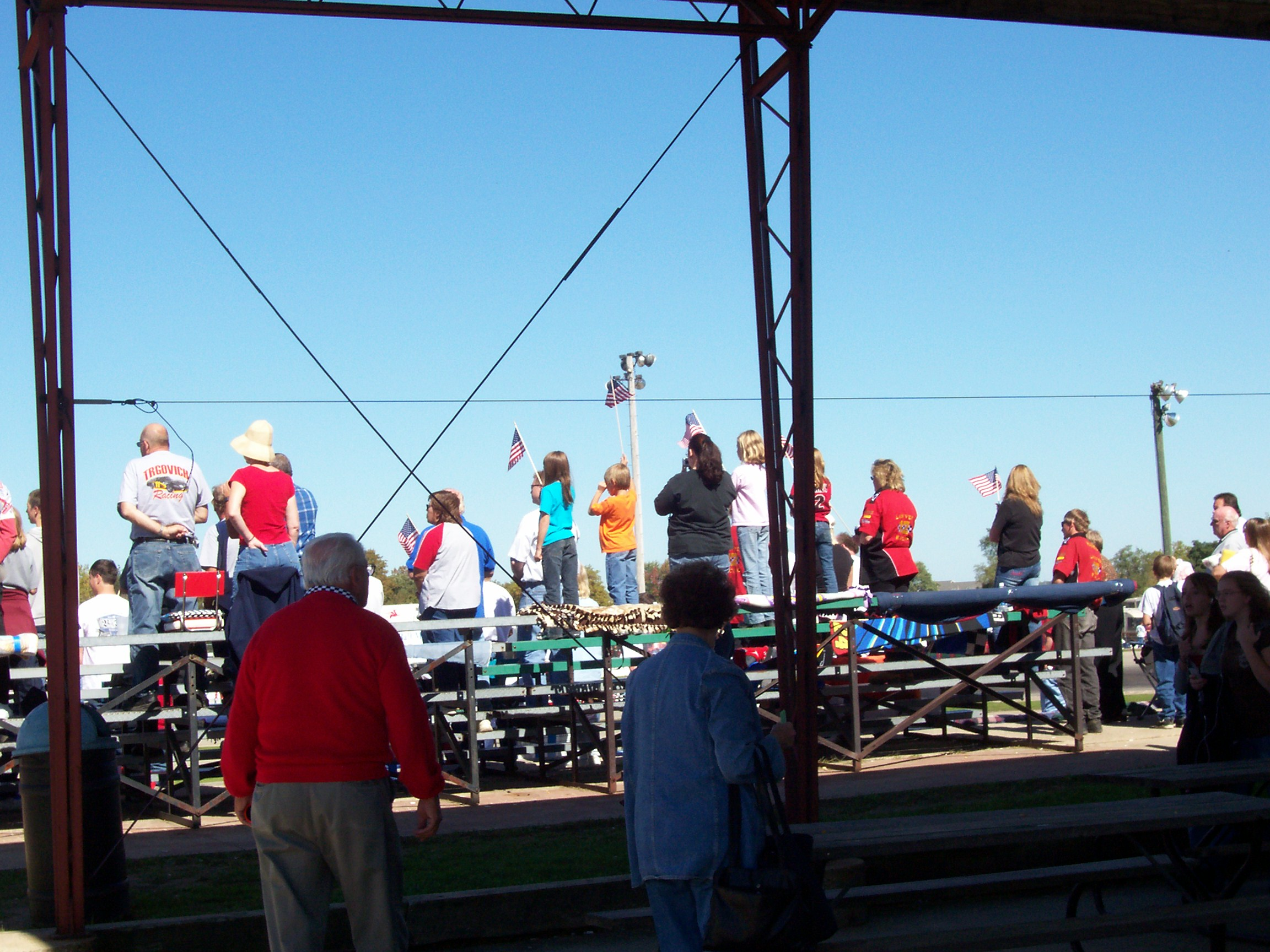 Fans during the national anthem at the final official stockcar races at the Lake Geneva Raceway in Lake Geneva, Wisconsin.